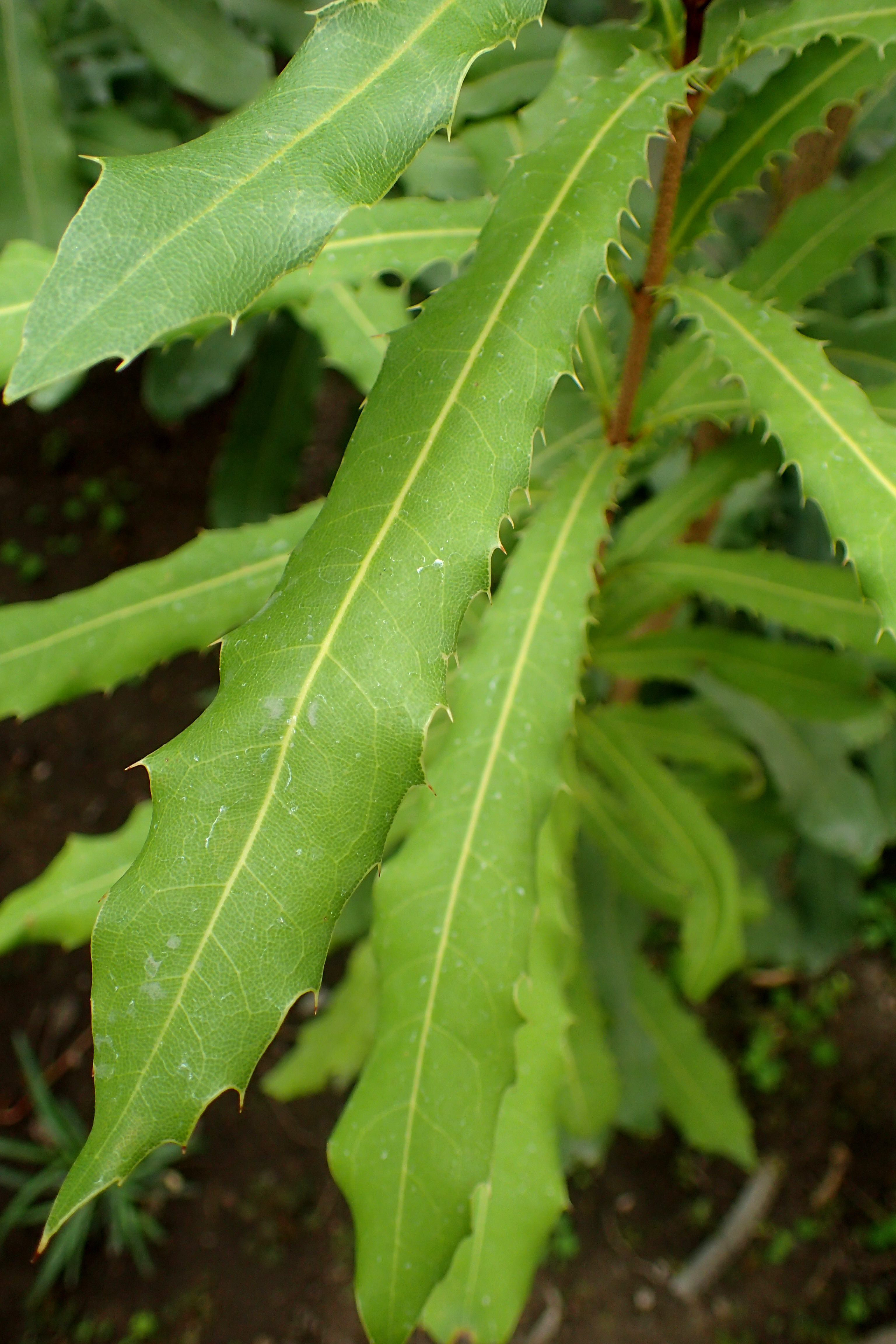 Macadamia ternifolia in botanical garden in Yerevan